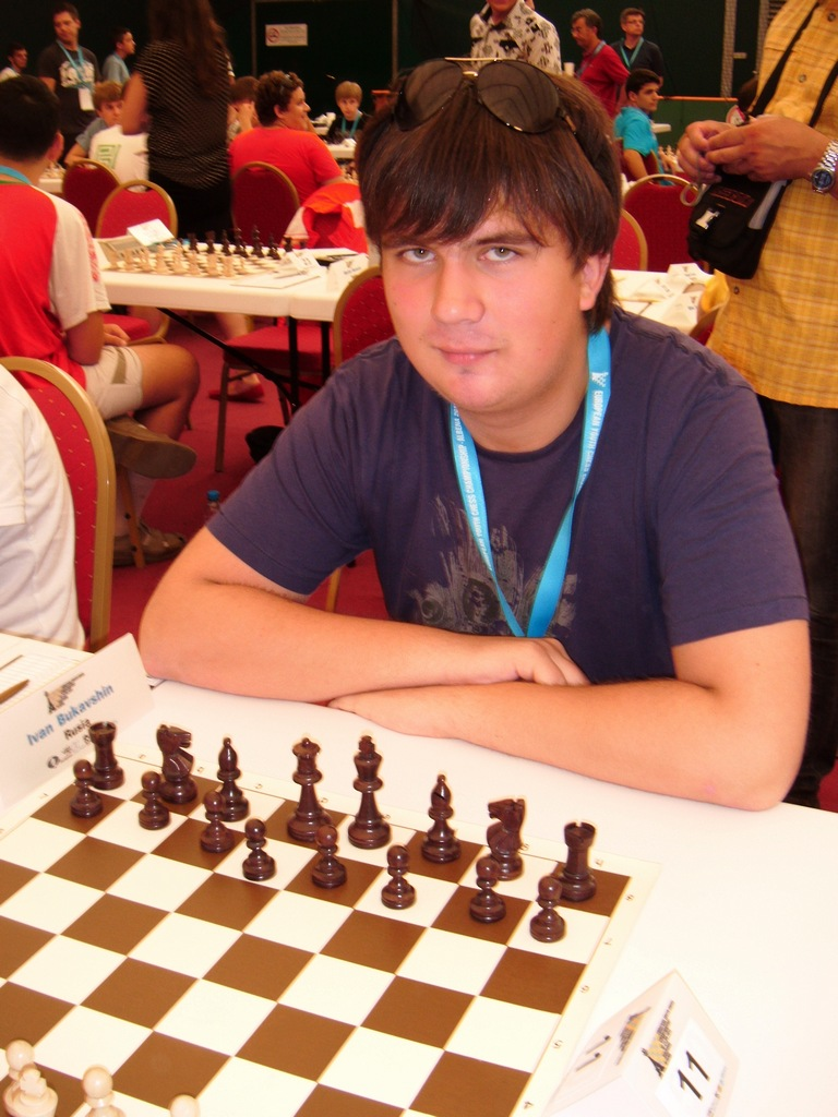 Ivan Bukavshin playing in the European Youth Chess Championship in Albena (Bulgaria)